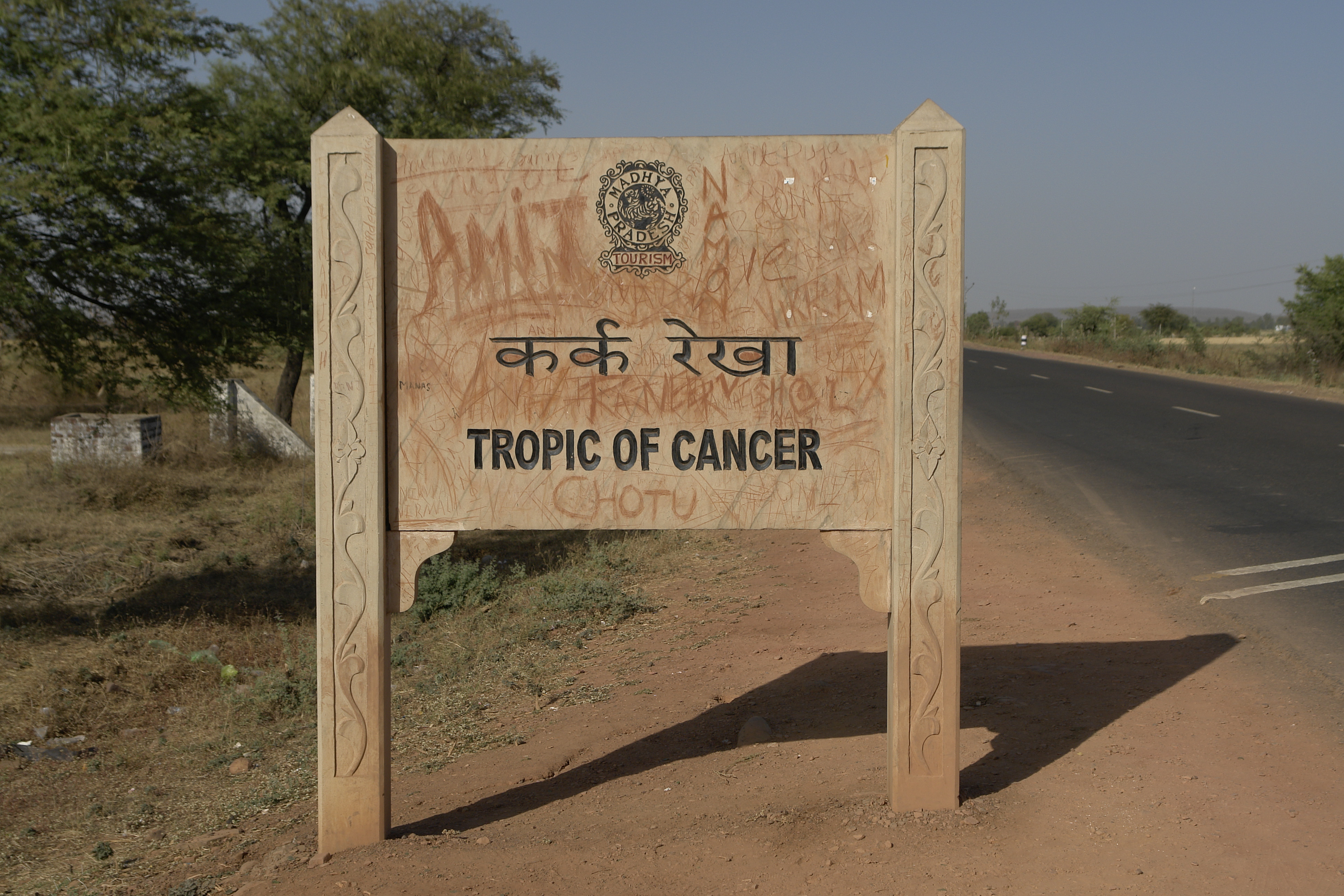 Tropic of Cancer board near Bhopal, India.